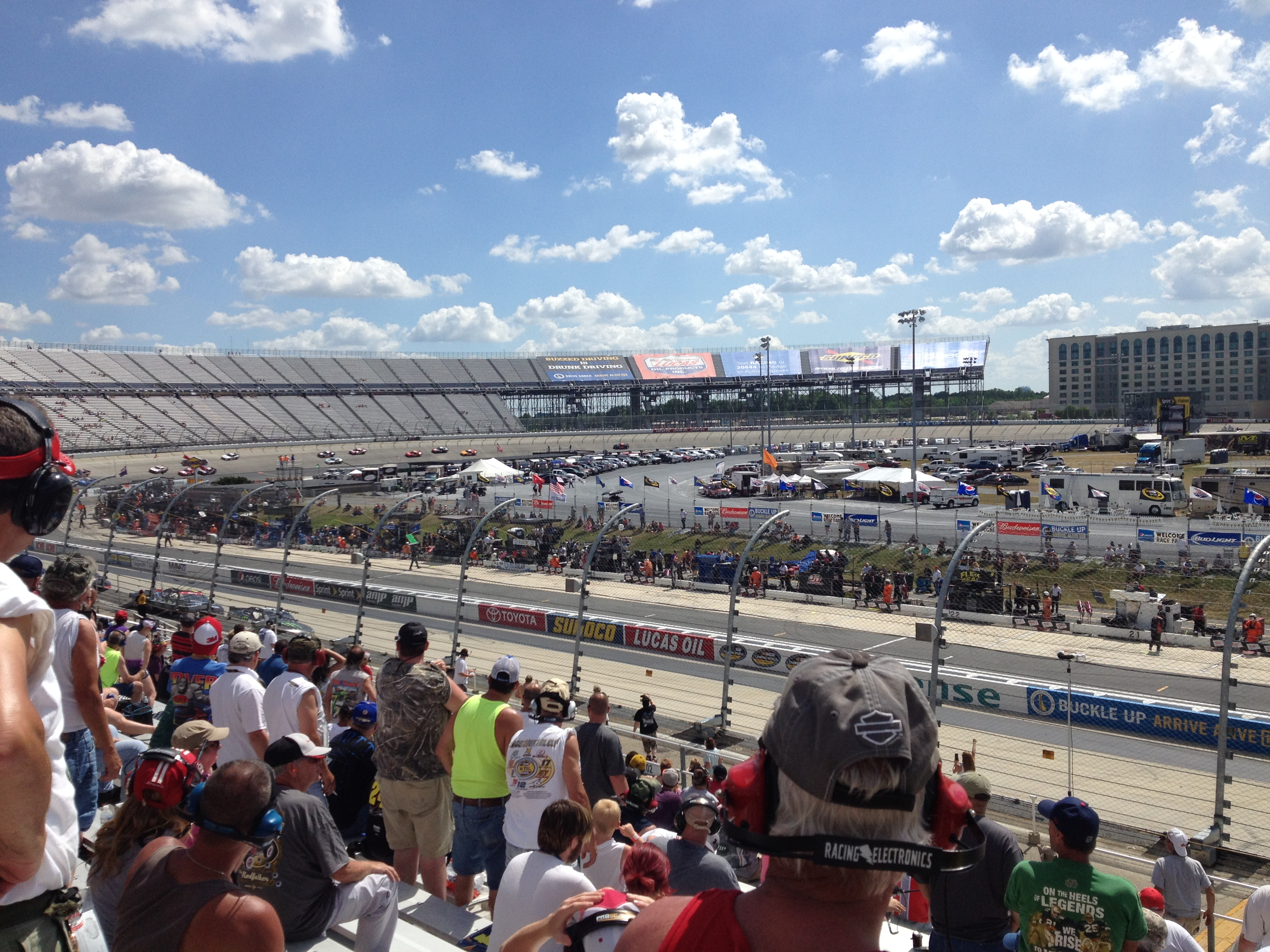 The 2015 Buckle Up 200 at Dover International Speedway viewed from the frontstretch, with Erik Jones (#54) leading.